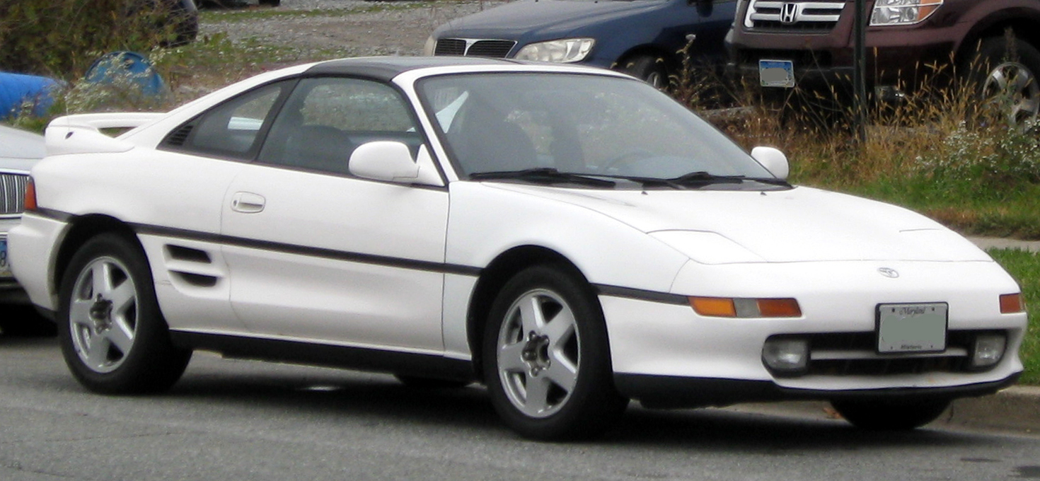 Toyota MR2 photographed in Silver Spring, Maryland, USA.